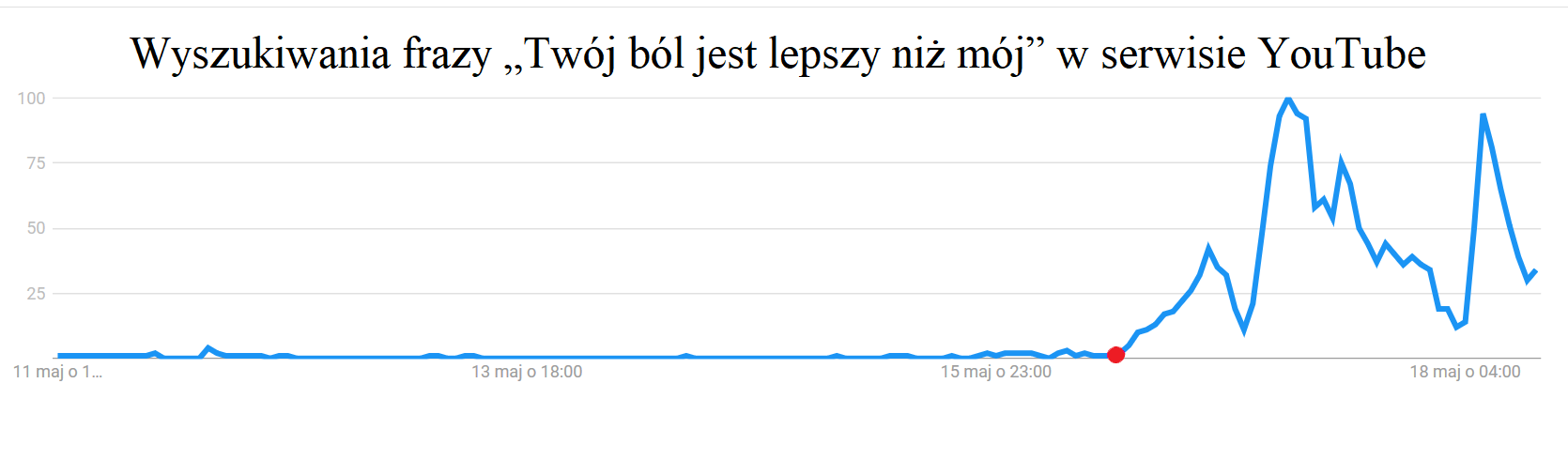 The Streisand effect is visible in the search results for Polish musician Kazik Staszewski's song "Twój ból jest lepszy niż mój" (your pain is better than mine) on YouTube; the biggest jump (red point) is visible after the announcement of the Trójka's (Polish Radio) director on the cancellation of the that day's music chart.